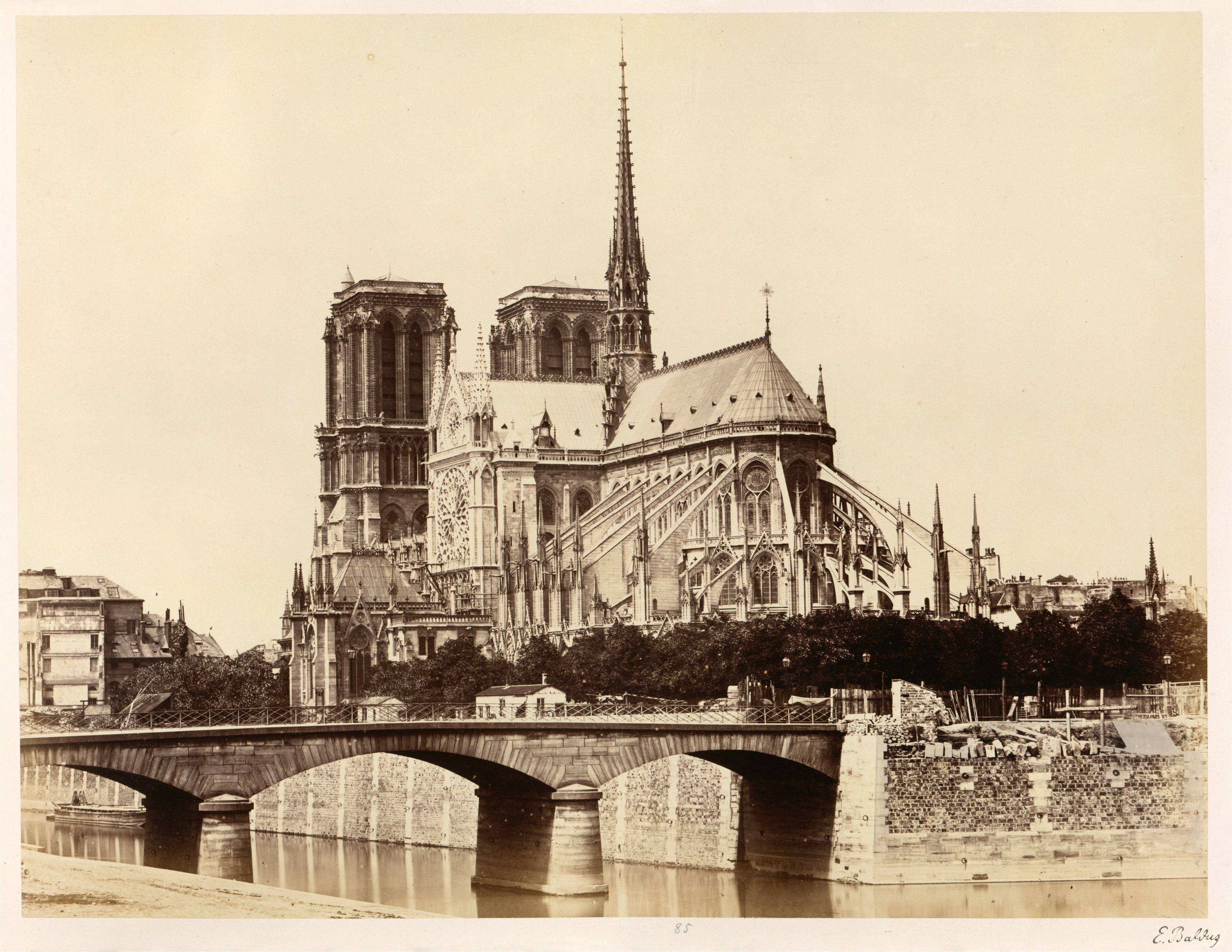 Albumen silver print from glass negative of the east facade of Cathédrale Notre-Dame de Paris